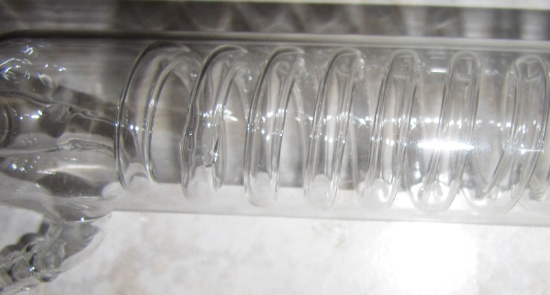 A close-up on the internal glass spiral of a 200mm Graham condenser.